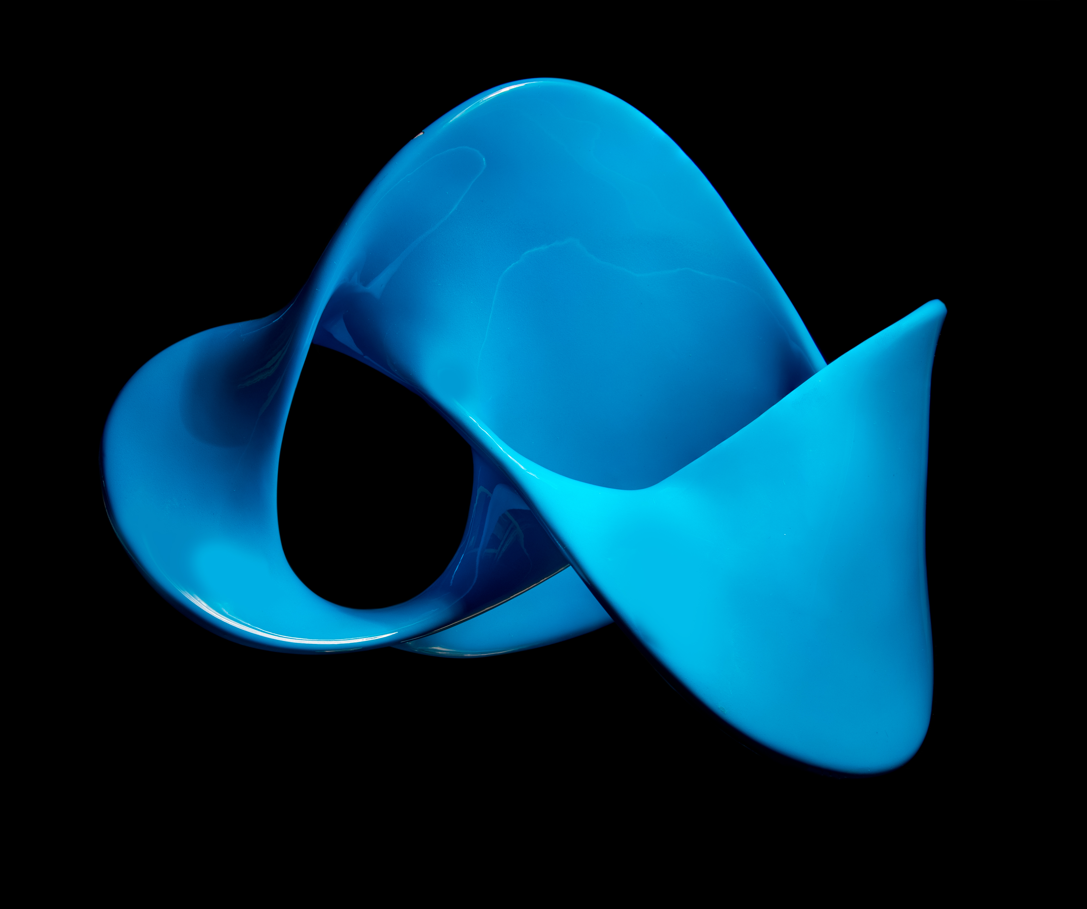 Mathematical surface which the boundaries are a warped cylinder.